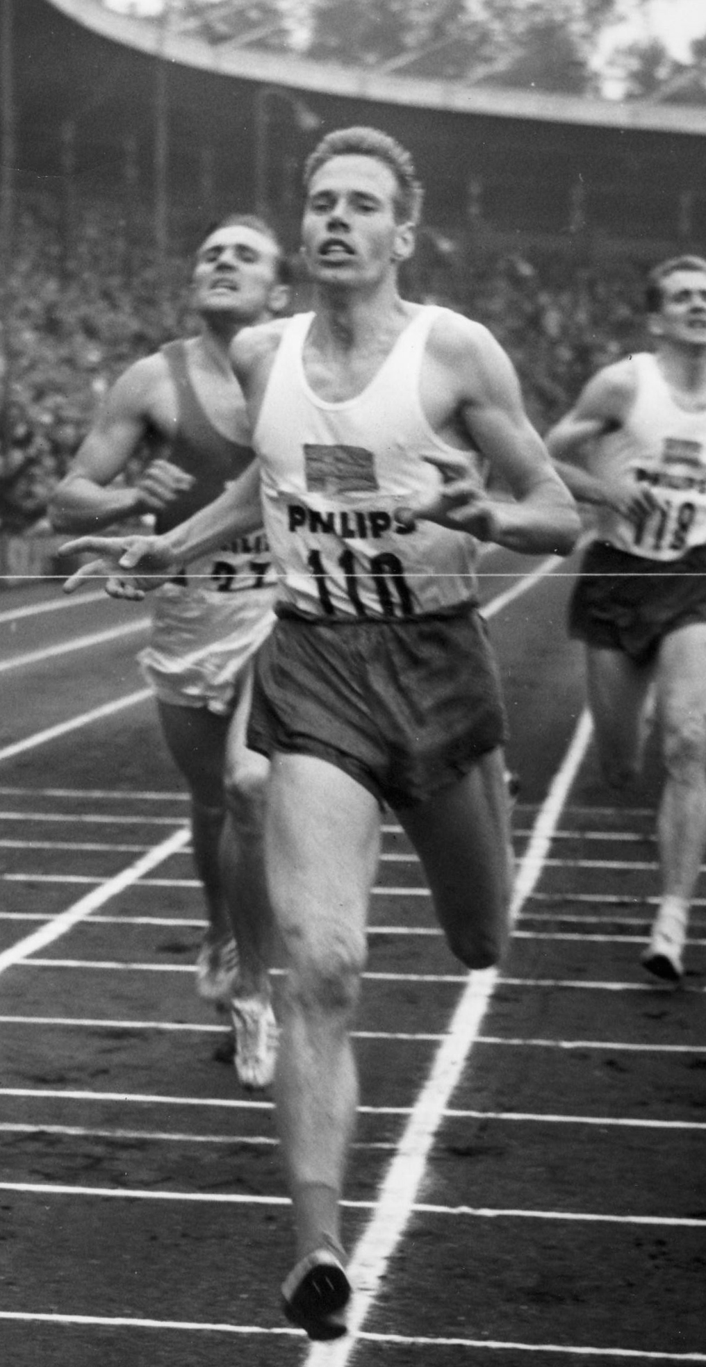 Sven-Olov Larsson winning a 1500 m race